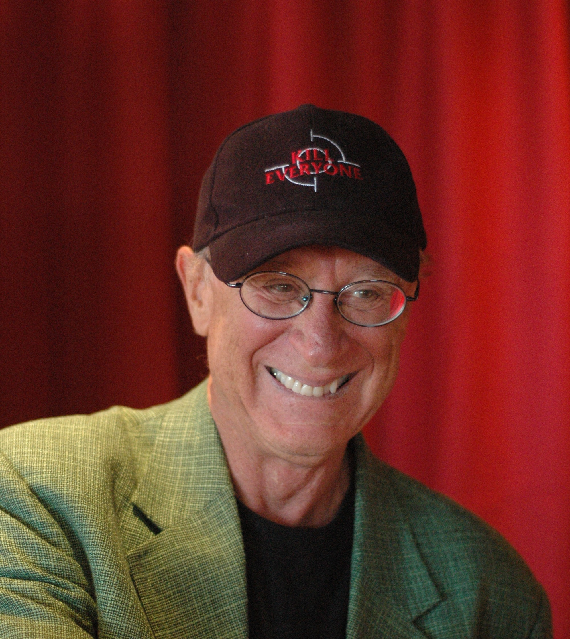 Lee Nelson at the European Poker Tour event in Monte Carlo 2008.